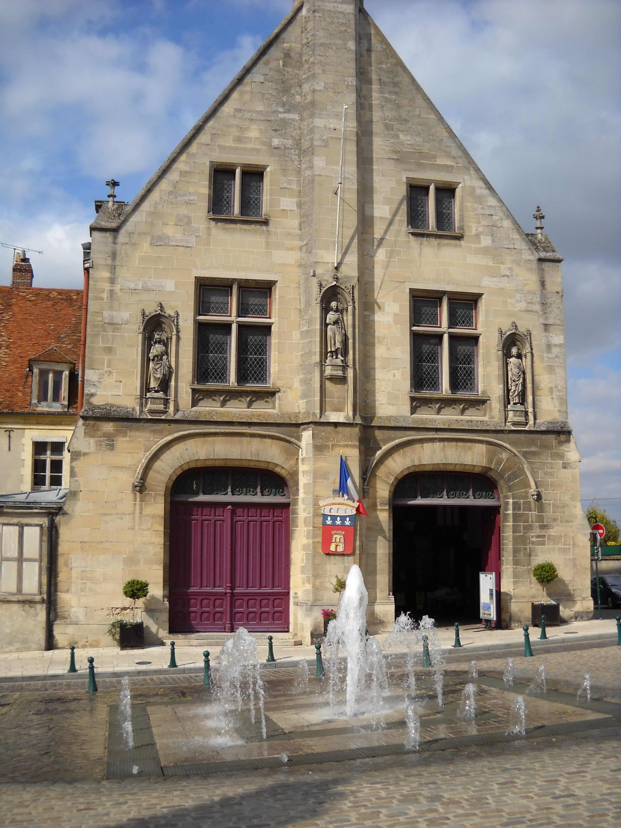 The town hall of Clermont, Oise, France.